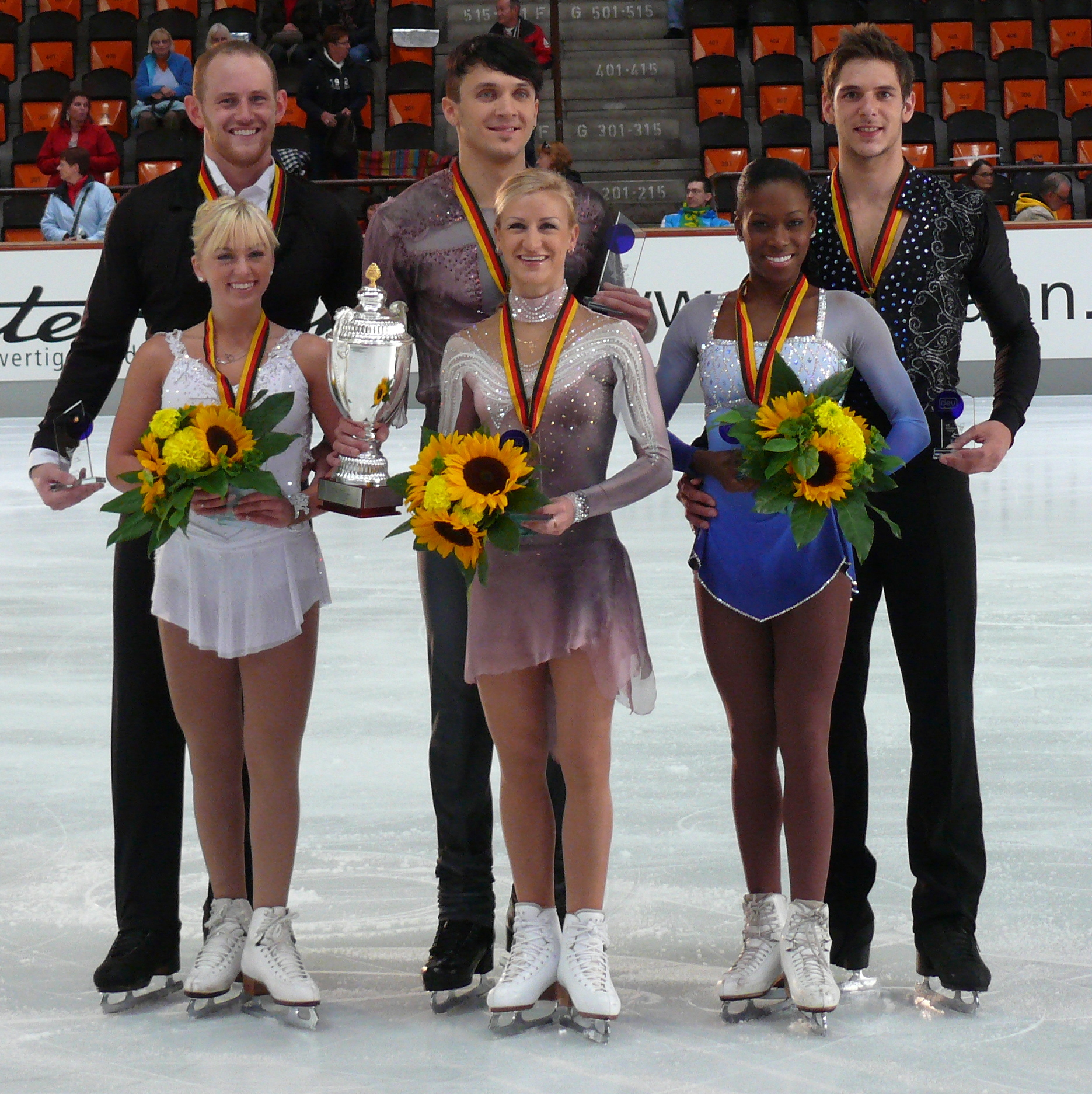 Victory Ceremony Pairs at the Nebelhorn Trophy 2012 in Oberstdorf/Germany. The pair left are the silver medallists Caydee Denney and John Coughlin (USA). The pair in the center are the winners and gold medallists Tatjna Volosozhar and Maxim Trankov (RUS). The right pair are the bronze medallists Vanessa James and Morgan Cipres (FRA).